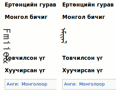 Usage example of CMs technique to write traditionnal mongol on the Mongolian wiktionary page about the term saddle (эмээл) At the left, the page without any CMs font, using latin script on Unicode 'Basic Latin' page, at the right, with the CMs Ulaanbaatar from Peter Chung (dEgi). This font is hardcoded in wiktionary in mongolian for CMs display.